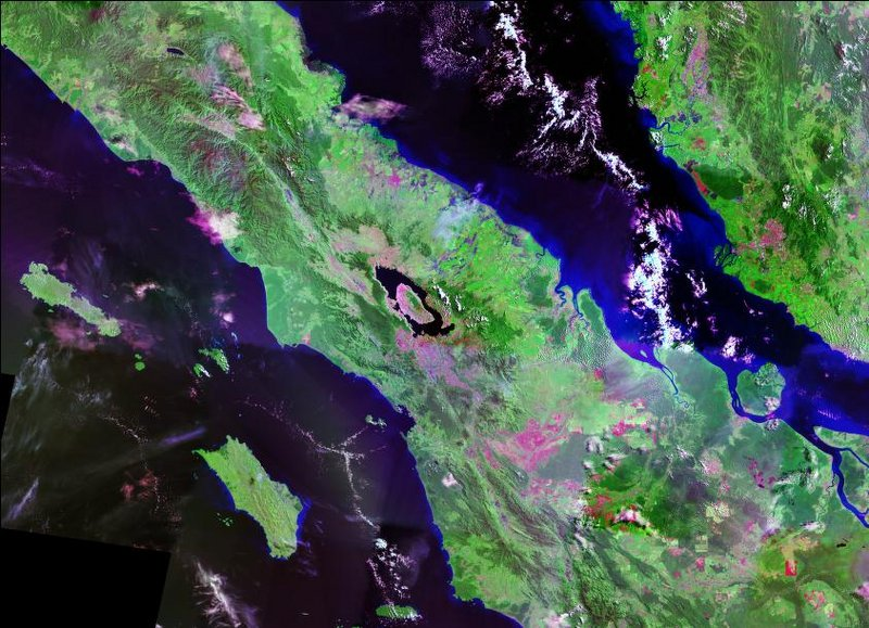 Lake Toba, Sumatra, Indonesia - Landsat satellite photo